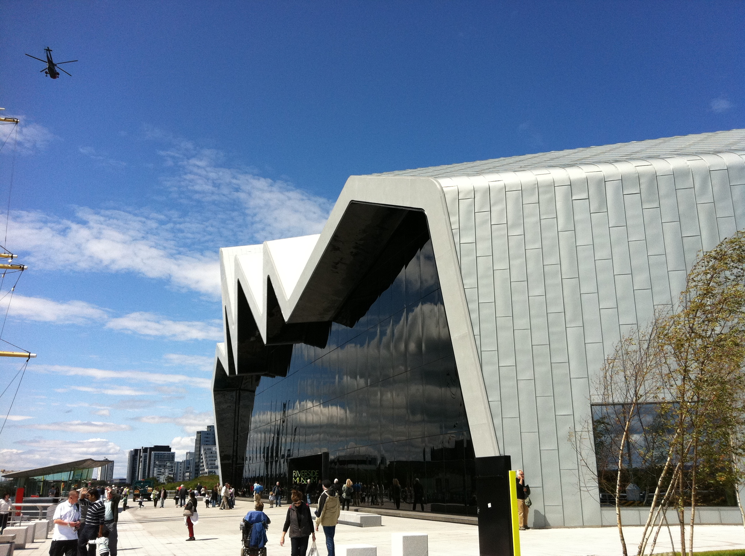 Taken from outside the front of the Riverside Museum in Glasgow